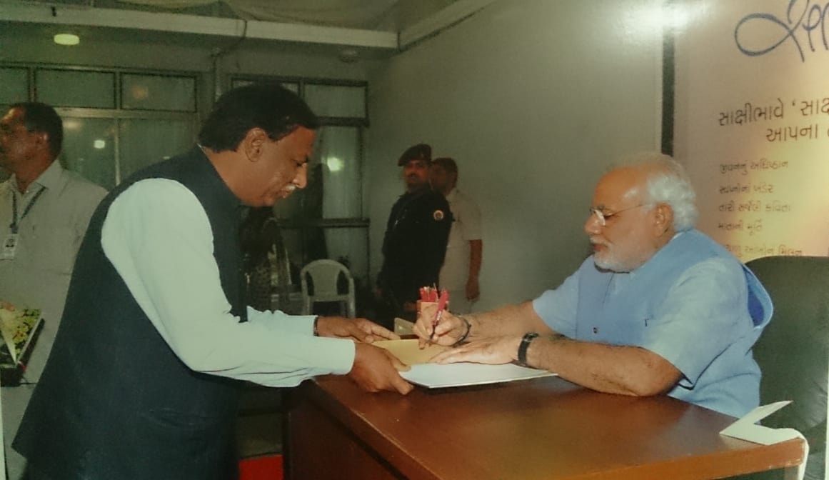 In Picture-Dr. Mahipatsinh Chavda (Vice chancellor) with Prime Minister of India